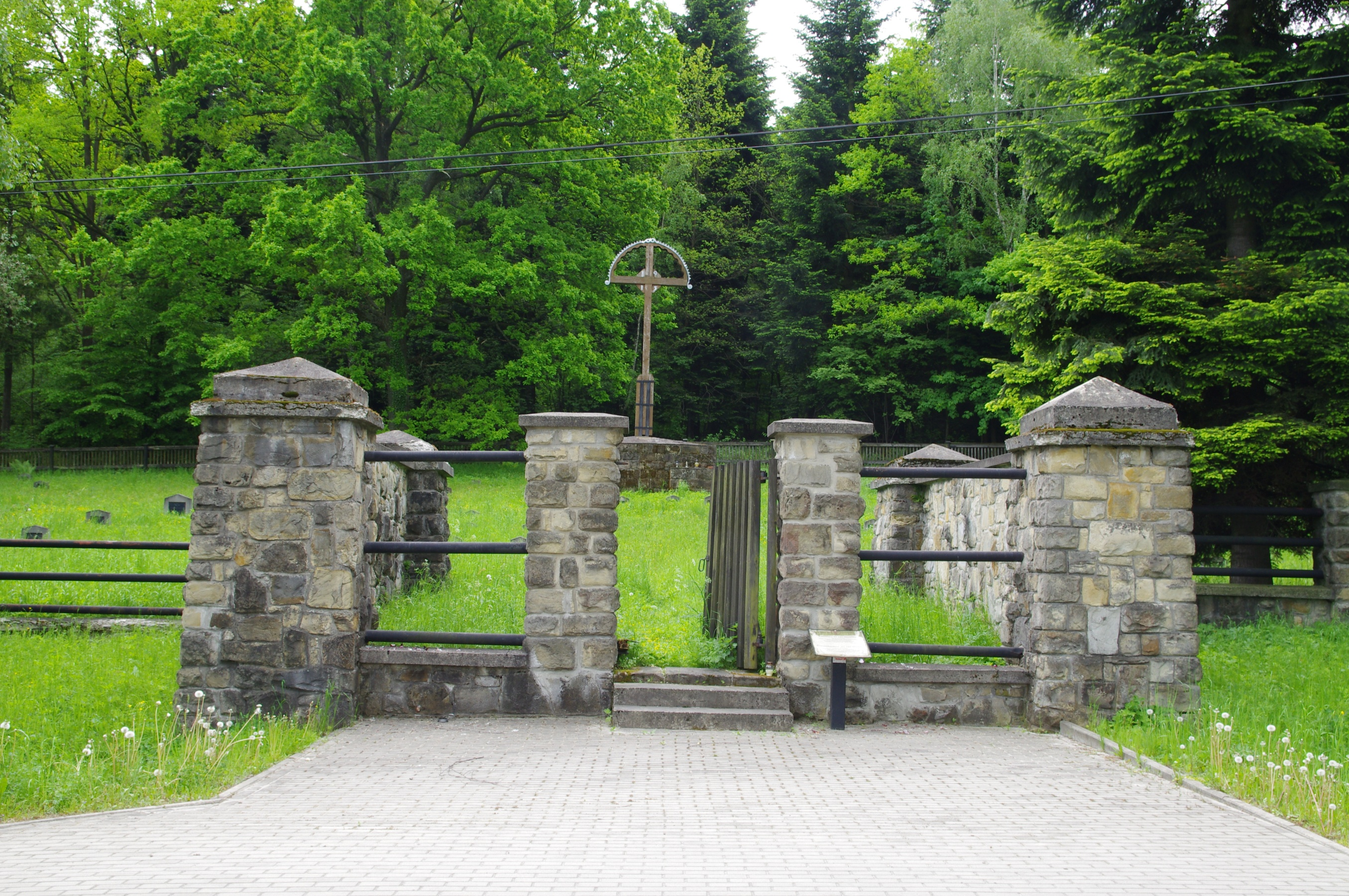 World War I Cemetery nr 124 in Mszanka